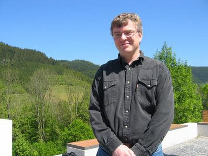 Eckhard Meinrenken, Oberwolfach 2007